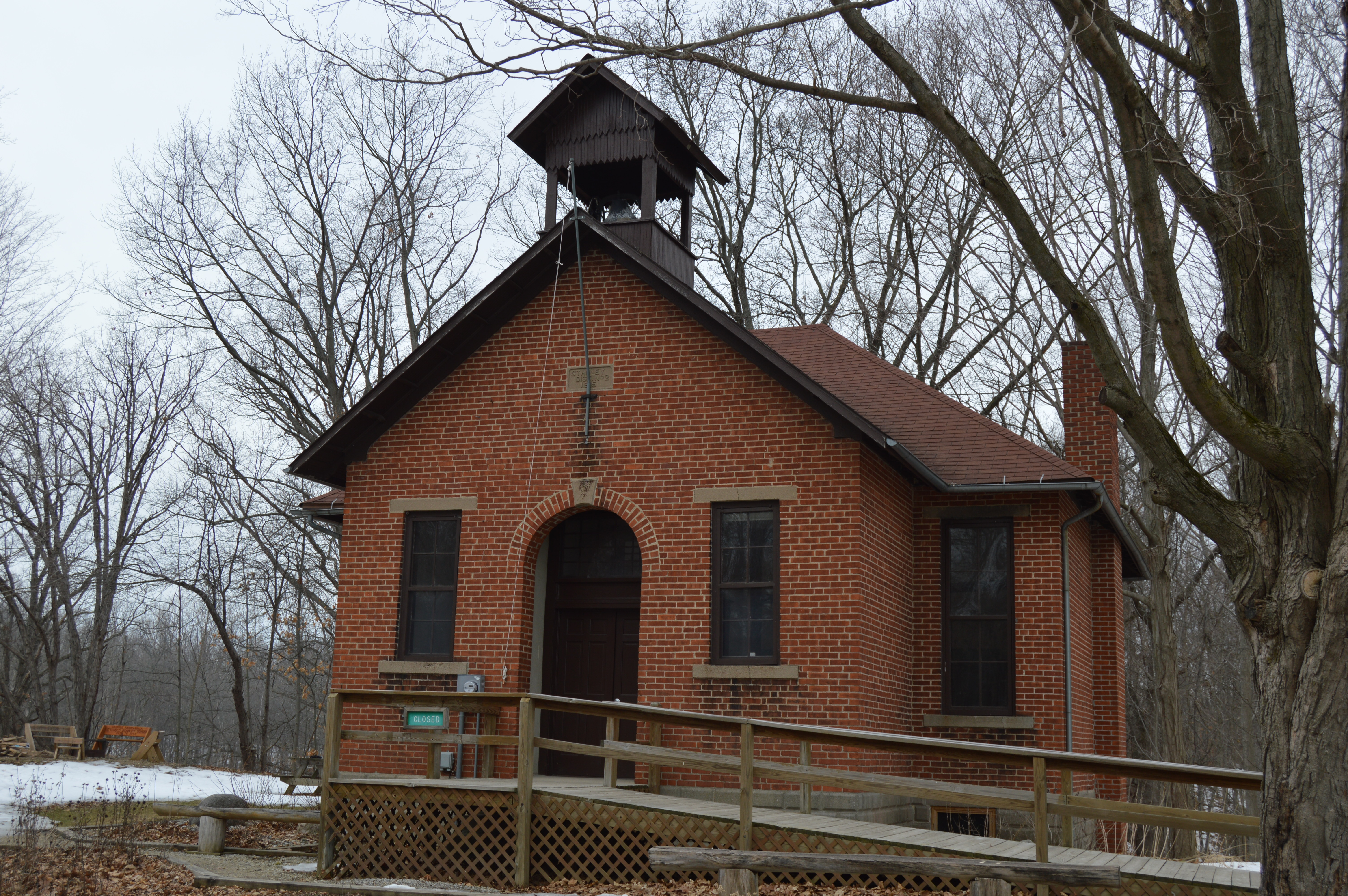 Front and northern side of the Stanley School-District No. 2, located in Chain O'Lakes State Park in rural Noble County, Indiana, United States. Built in 1915, it is listed on the National Register of Historic Places.